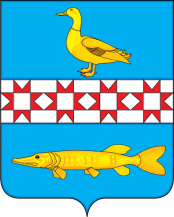 Coat of arms of Novopokrovski (Primorsko-Ajtarsk, Krasnodar, Russia)